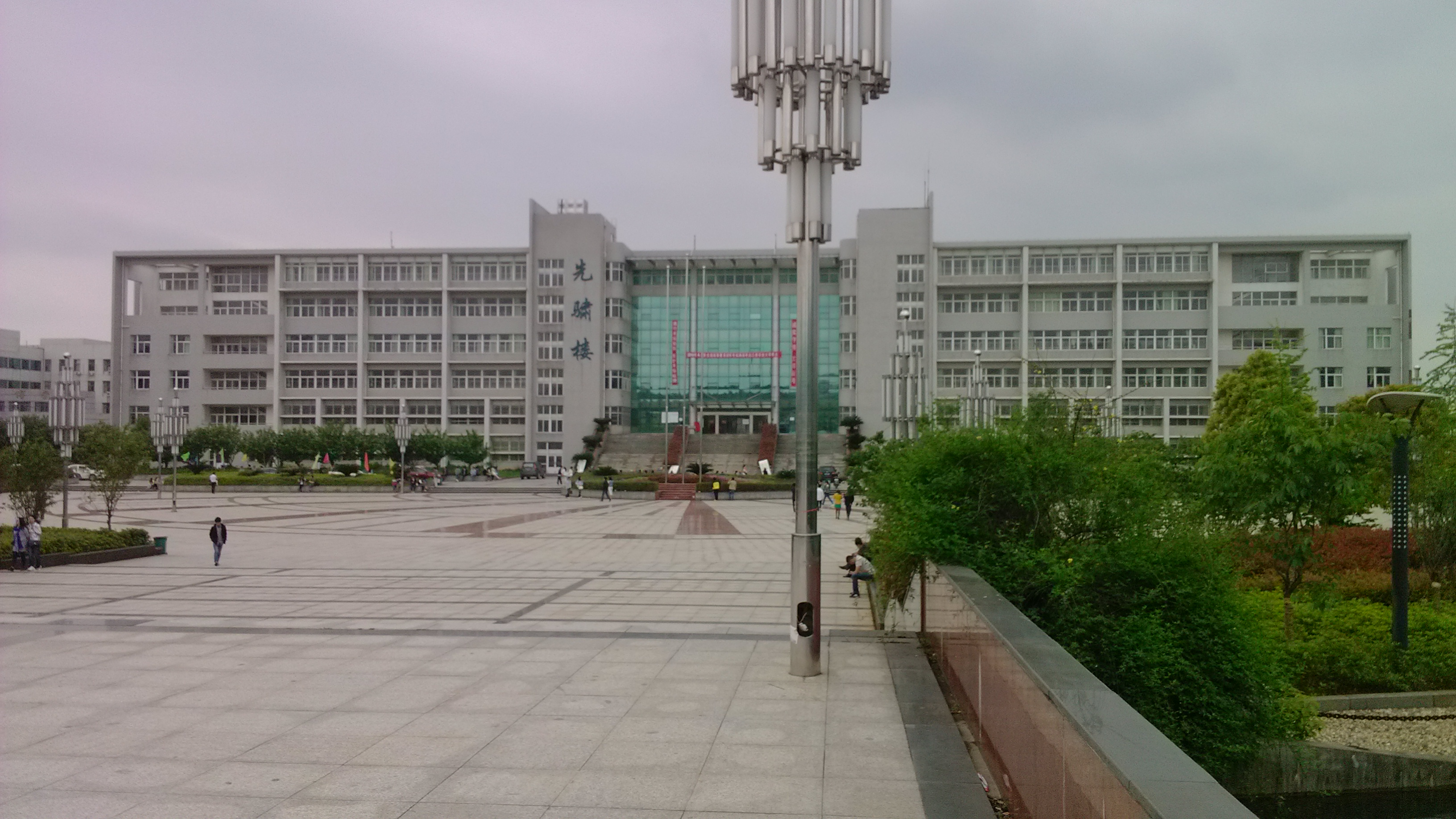 building of xiansu of jiangxi agriculture university